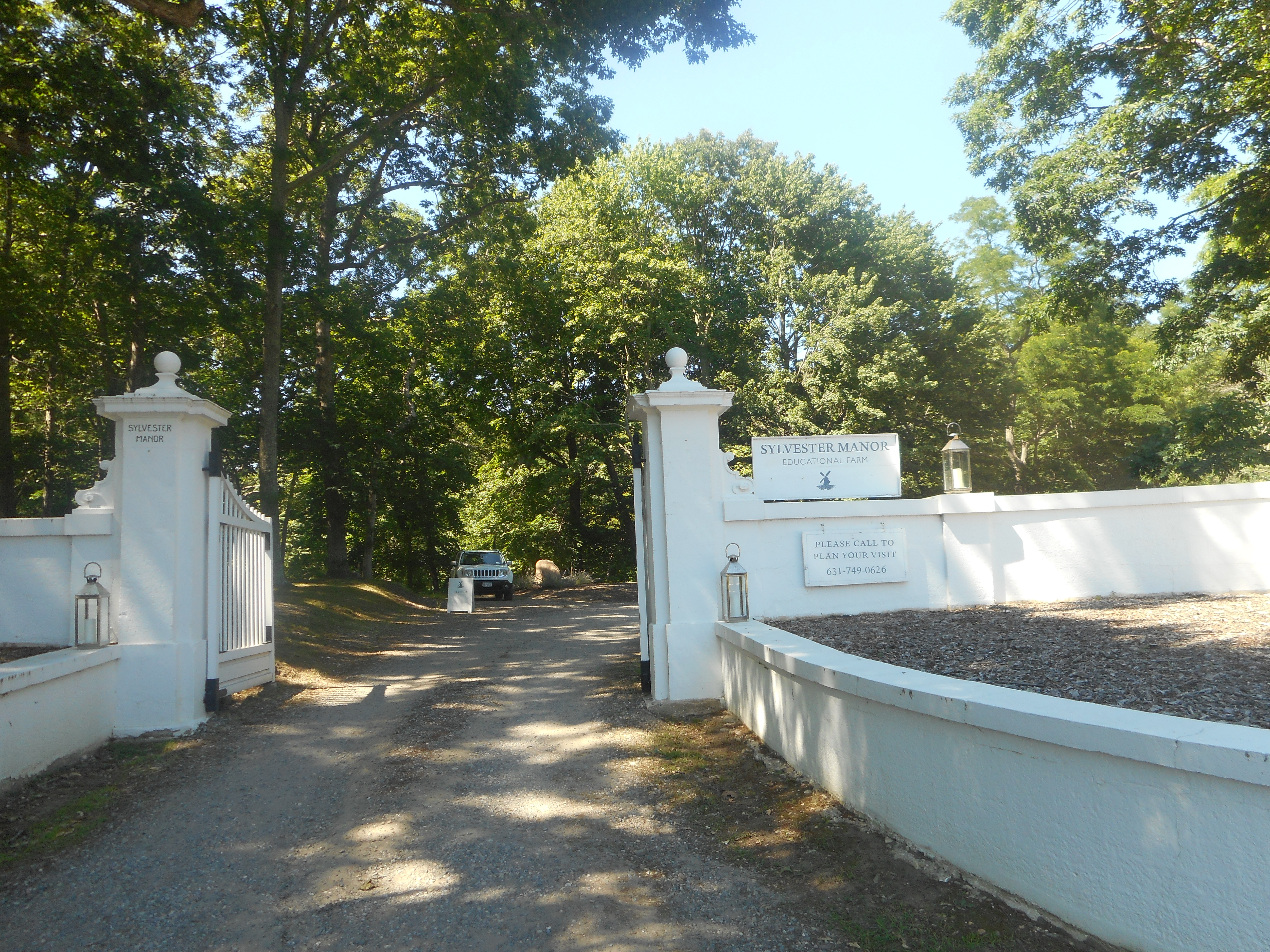 The gateway to Sylvester Manor, a 1652 plantation homestead on Shelter Island, New York at the intersection of North Ferry Road (NY 114) and Manwaring Road (Suffolk CR 37). Currently listed on the National Register of Historic Places. Officially the site now used as educational farm, however the day this picture was taken, they were hosting a wedding.